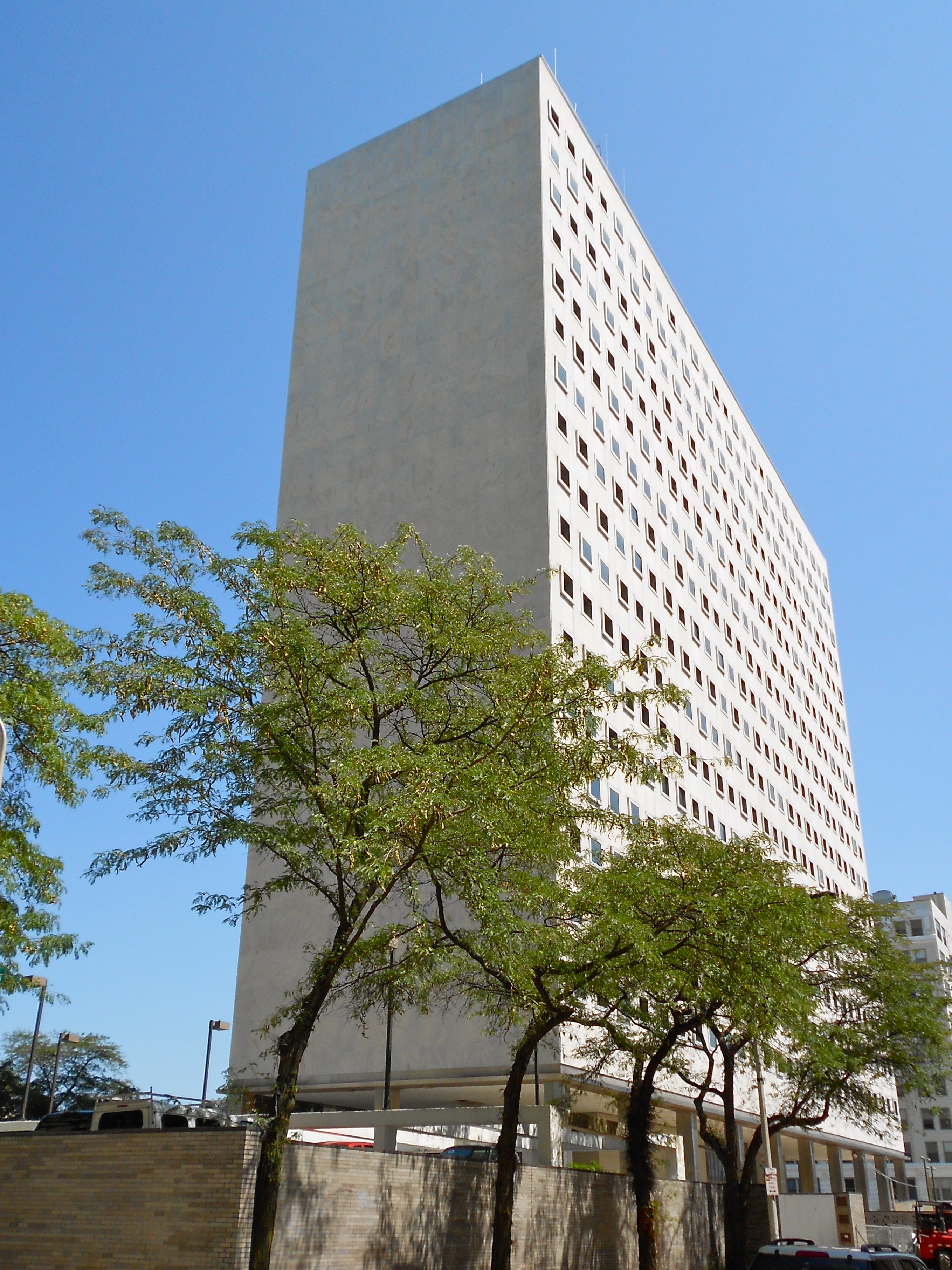 Pennsylvania State Office Building. Taken from the SW, south of Spring Garden